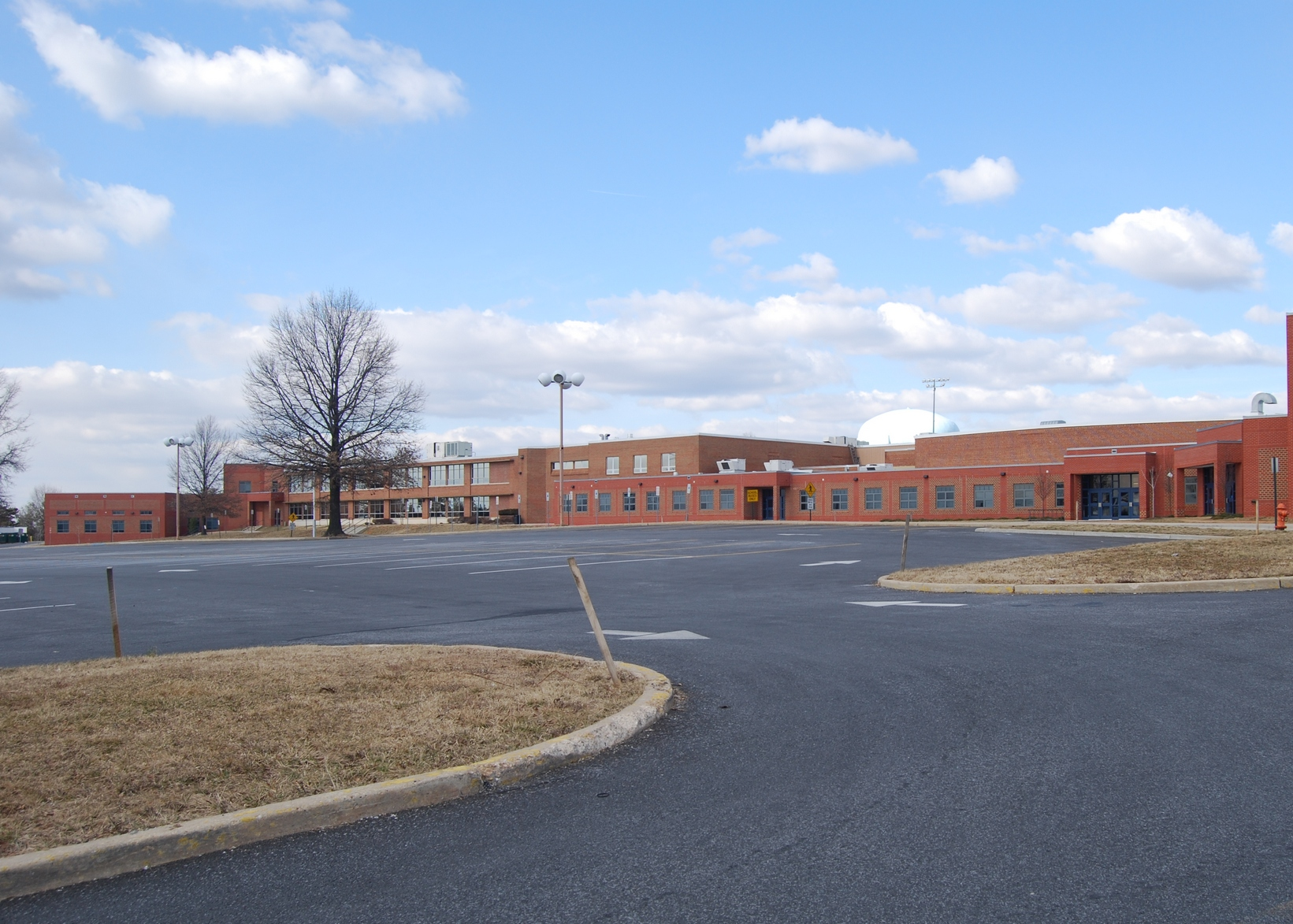 Howard High School in Ellicott City